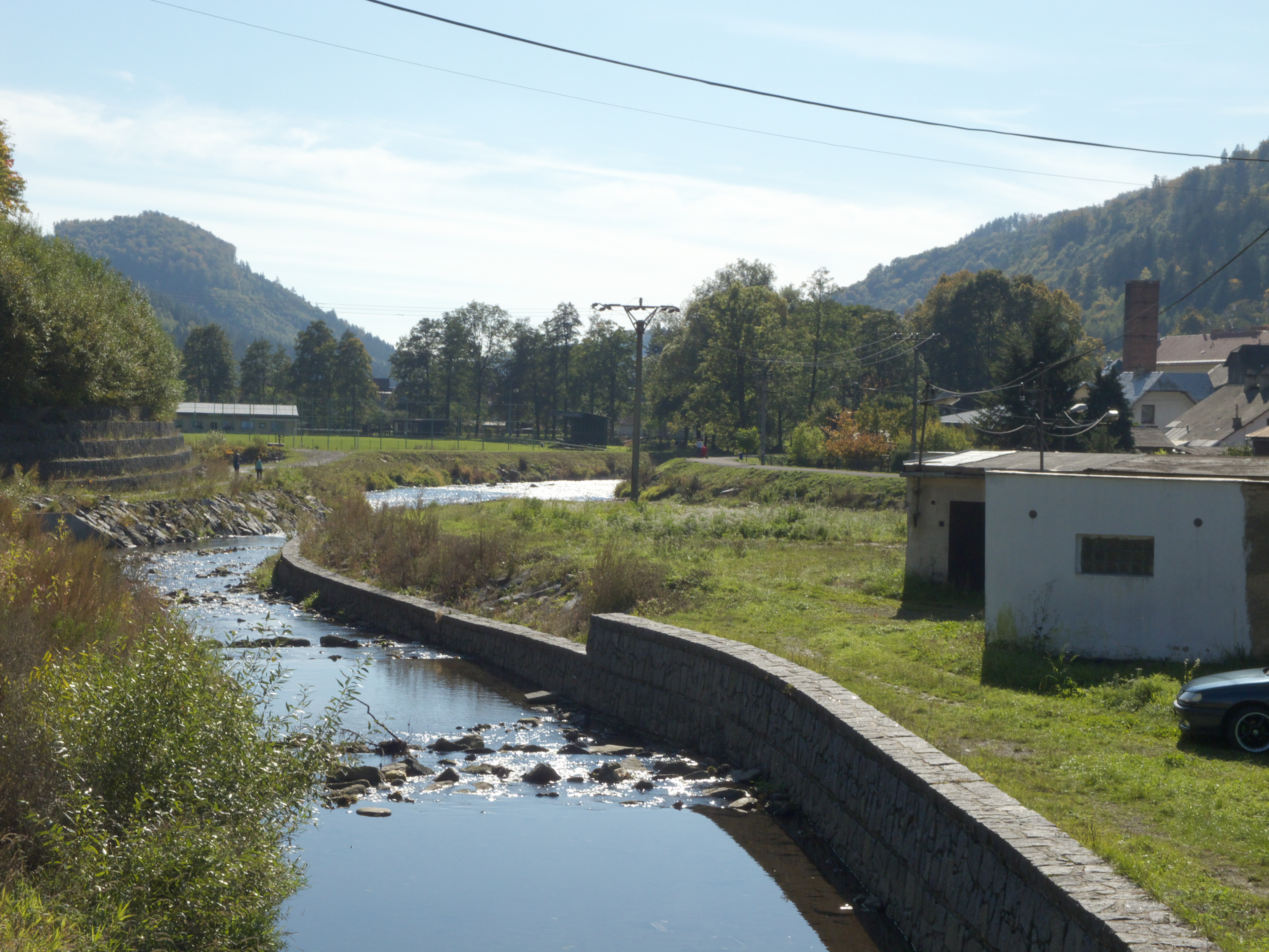 A mouth of The Branná river